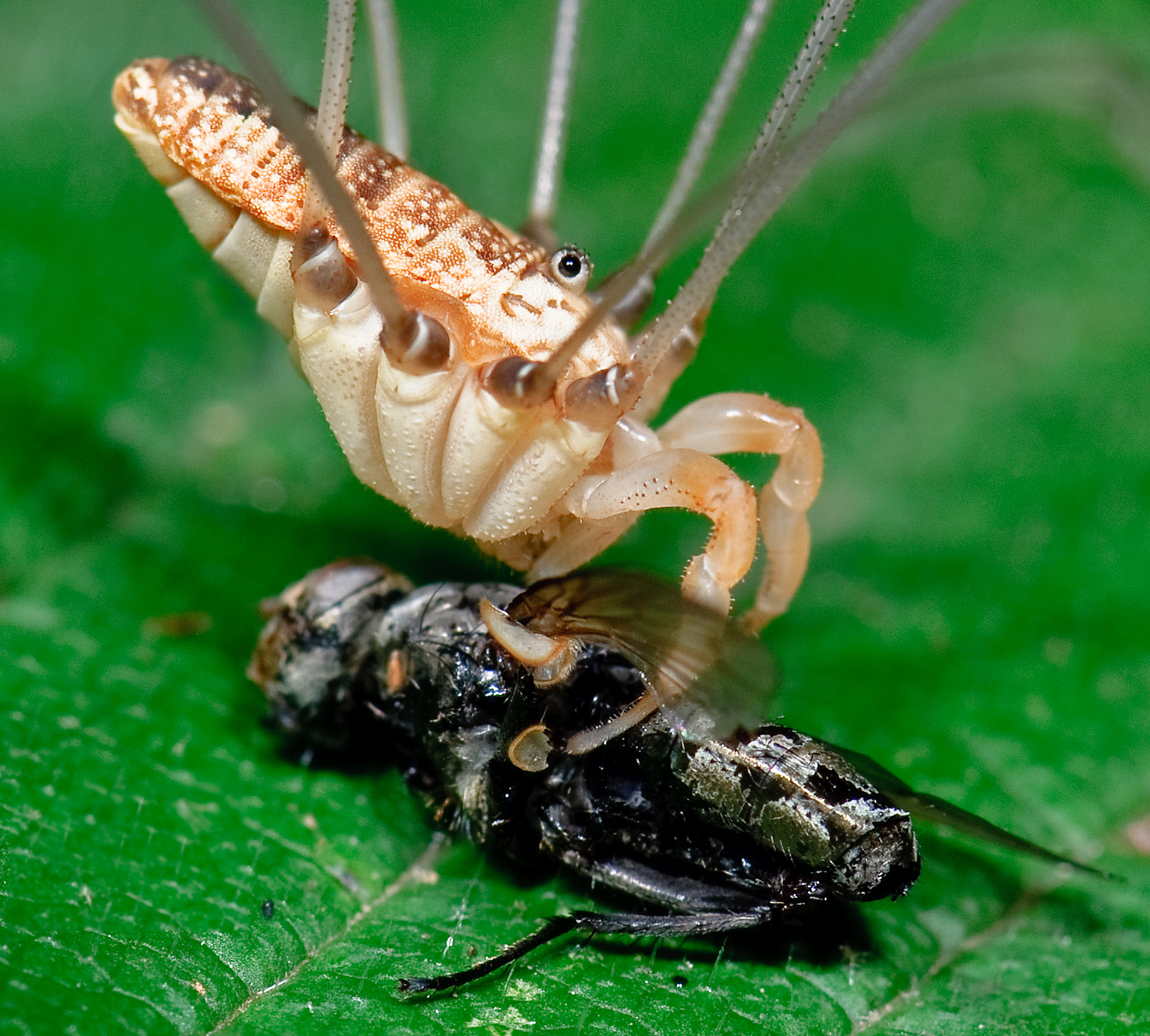 with stocky palps like L. crassipalpe, but the abdomen is long and pointy, like L. vittatum. hmmmm..